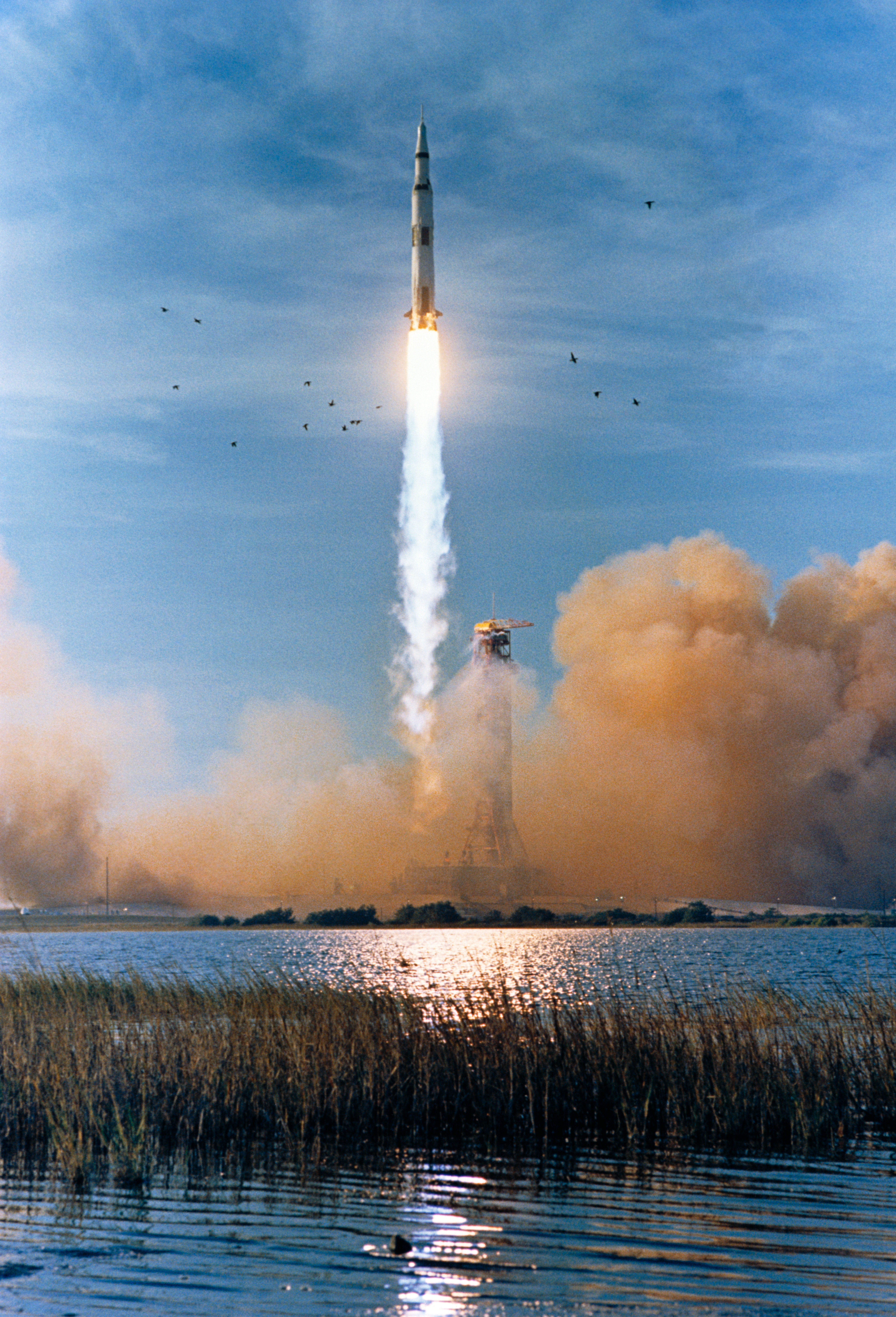 The Apollo 8 (Spacecraft 103/Saturn 503) space vehicle is launched from Pad A, Launch Complex 39, Kennedy Space Center (KSC), at 7:51 a.m (EST), December 21, 1968. The crew of the Apollo 8 lunar orbit mission is astronauts Frank Borman, commander; James A. Lovell Jr., command module pilot; and William A. Anders, lunar module pilot.